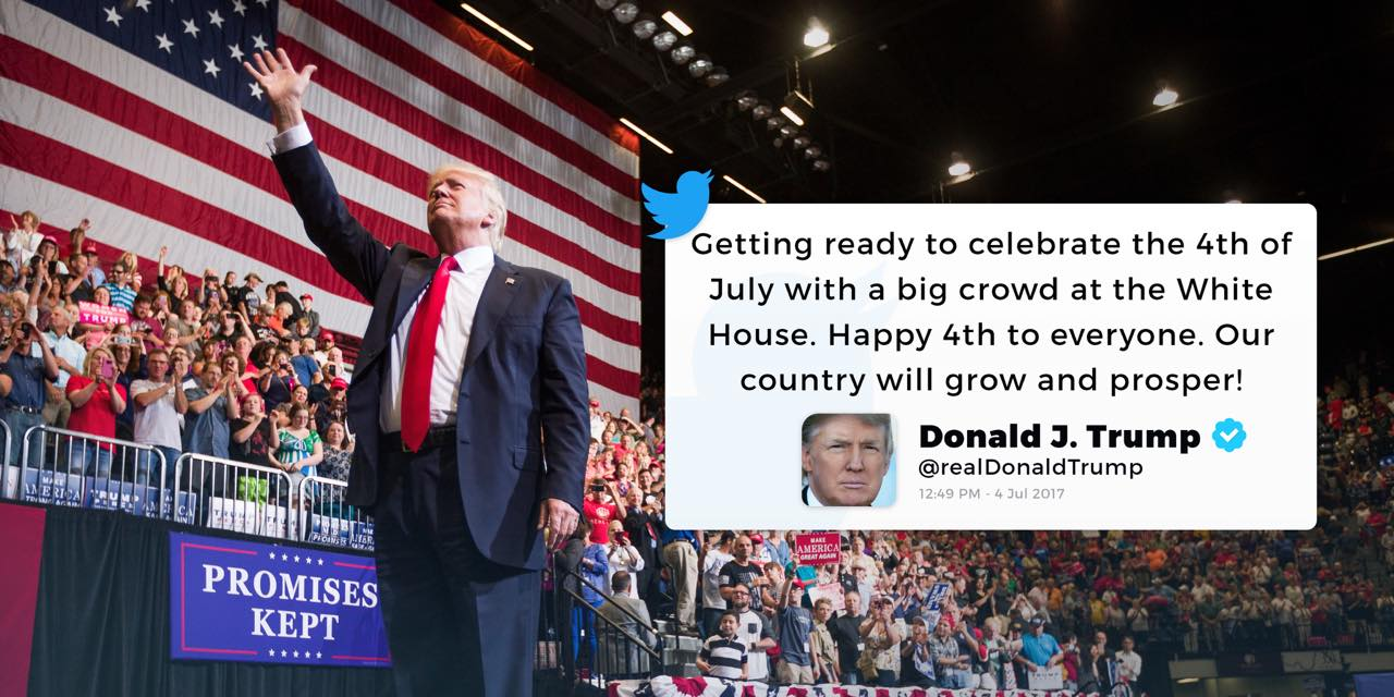 Trump tweet on July 4th (in an image posted to his Facebook)